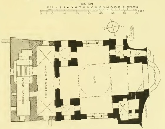 Altchristliche und byzantinische Kunst (c1914) Author: Wulff, Oskar, 1864- Subject: Christian art and symbolism; Art, Byzantine Publisher: Berlin-Neubabelsberg : Akademische Verlagsgesellschaft Athenaion Possible copyright status: NOT_IN_COPYRIGHT Language: German Call number: 263018 Digitizing sponsor: MSN Book contributor: Robarts - University of Toronto Collection: toronto Notes: Picture+pages+are+not+numbered. Scanfactors: 2